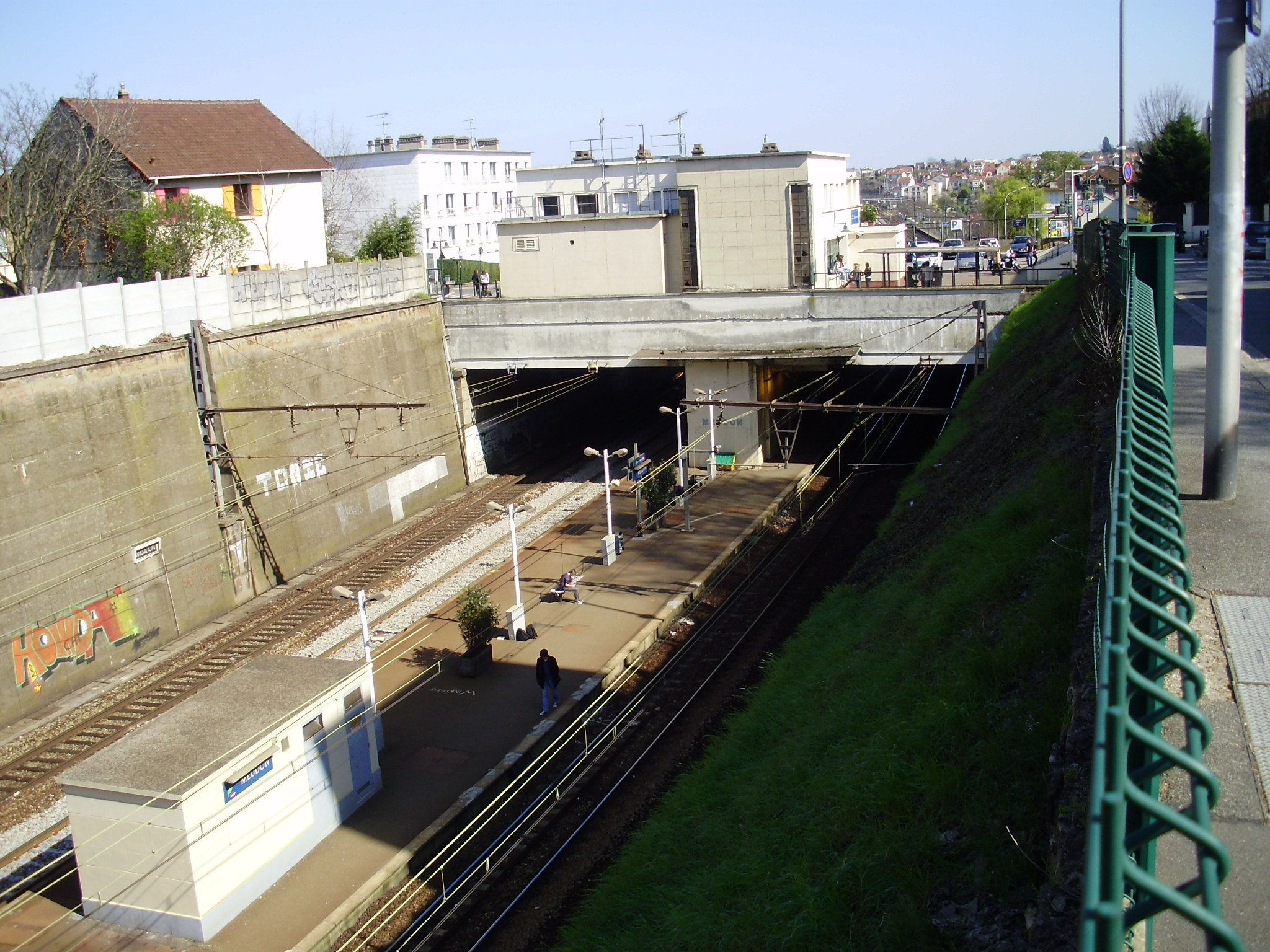 Meudon station - central platform, Hauts-de-Seine, France